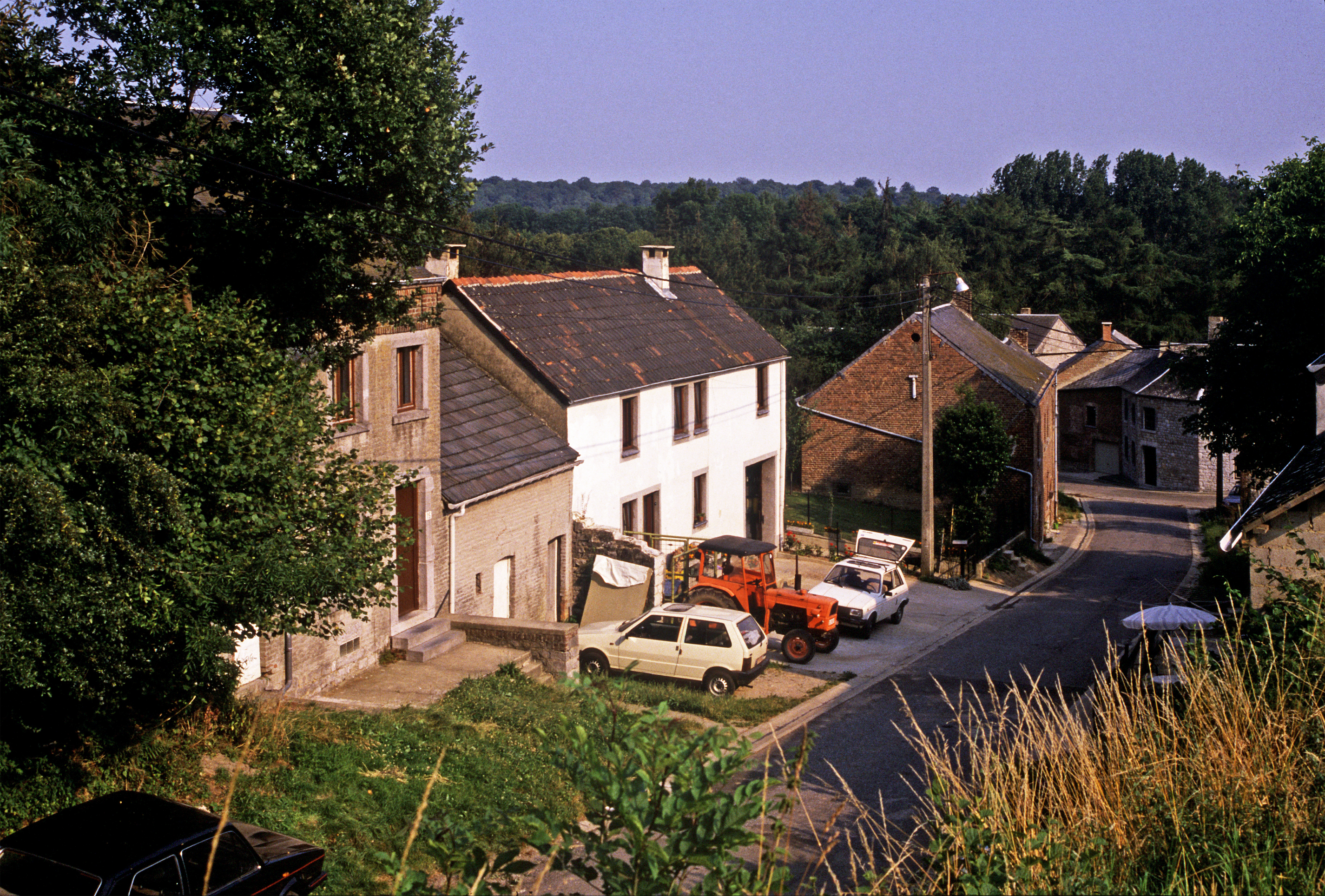 Conneux (municipality of Ciney, province of Namur, Belgium): the Rue de La Citadelle in 1990